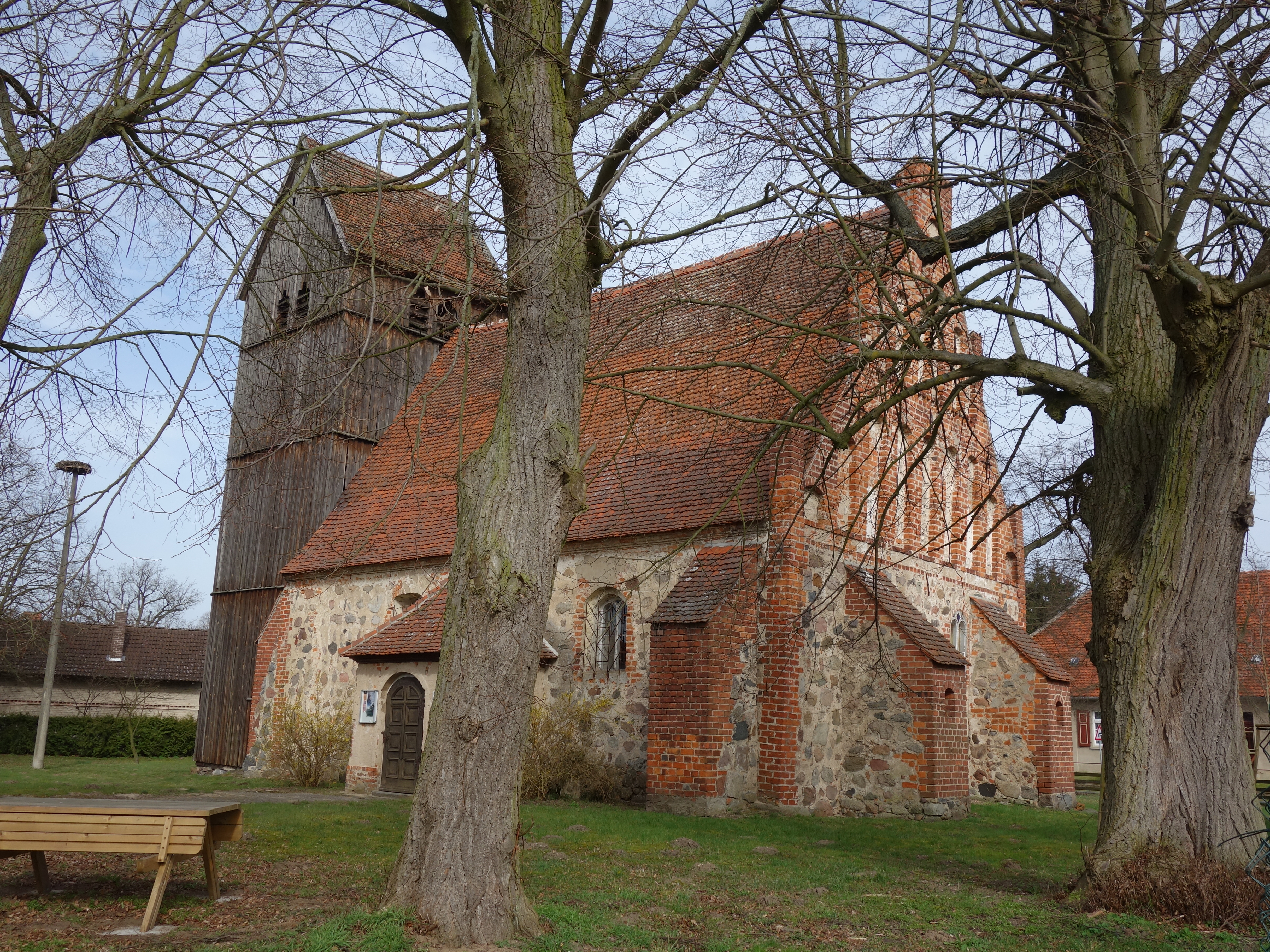 South-eastern view of church in Rossow, Wittstock municipality, Ostprignitz-Ruppin district, Brandenburg state, Germany